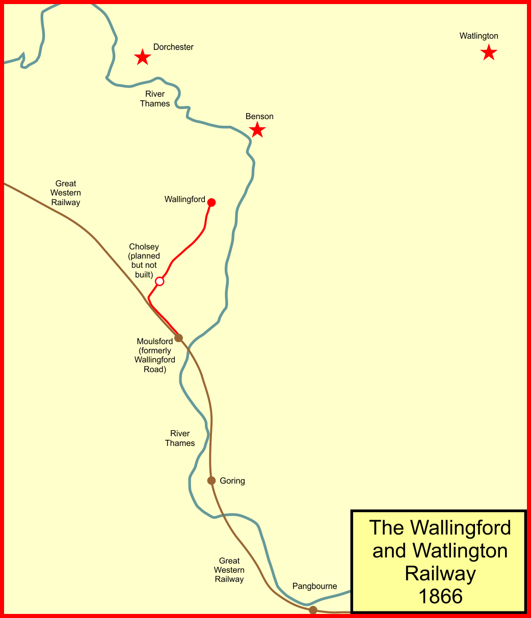 System map of the Wallingford branch line railway, England, 1866